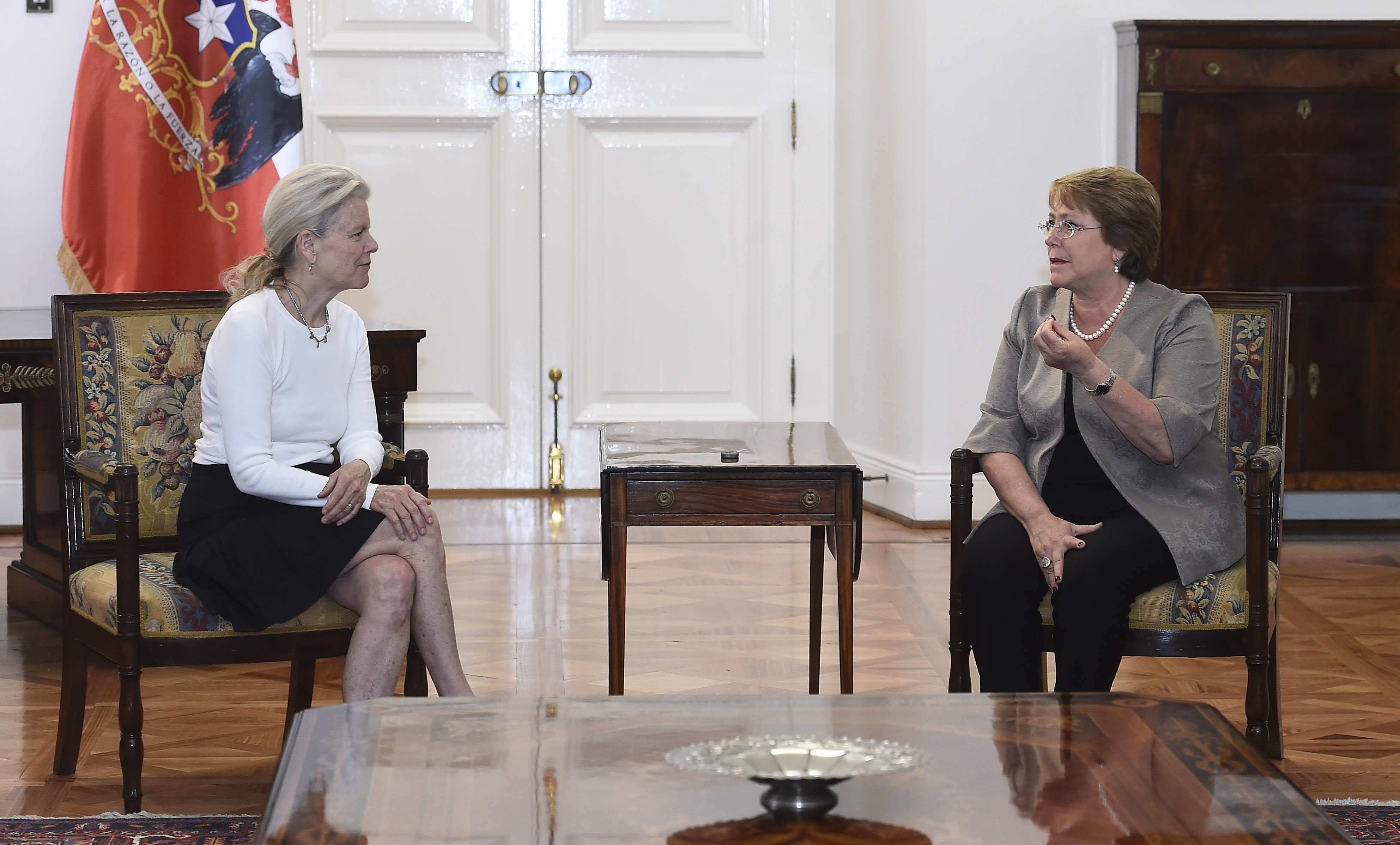 Presidenta recibe a Kristine McDivitt Tompkins